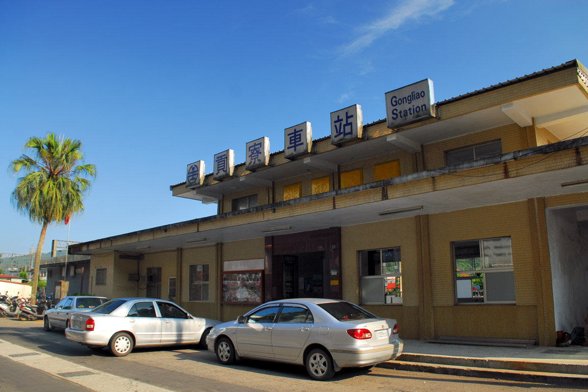 GongLiao Station is a local train station of Yilan Line, part of Taiwan's eastern rail line. It's the main station of GongLiao Township, Taipei County.